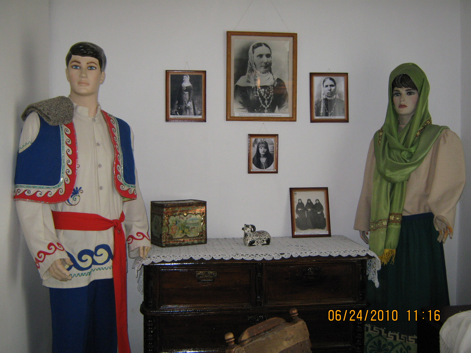 Museum of Greek Priazovya in Sartana